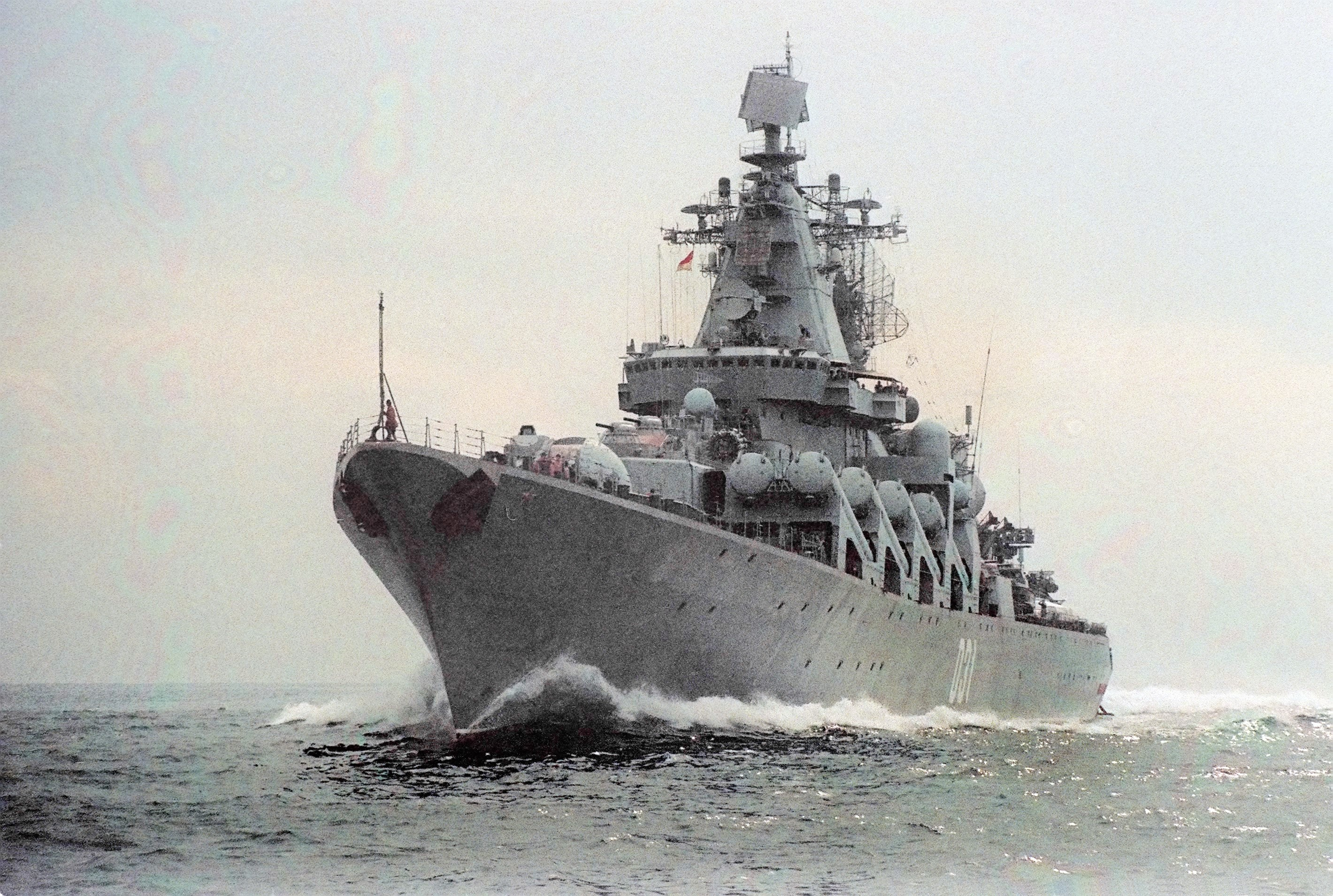 A port bow view of the Soviet Slava class guided missile cruiser CHERNOVA UKRAINA underway en route to the Pacific Ocean from the Black Sea.